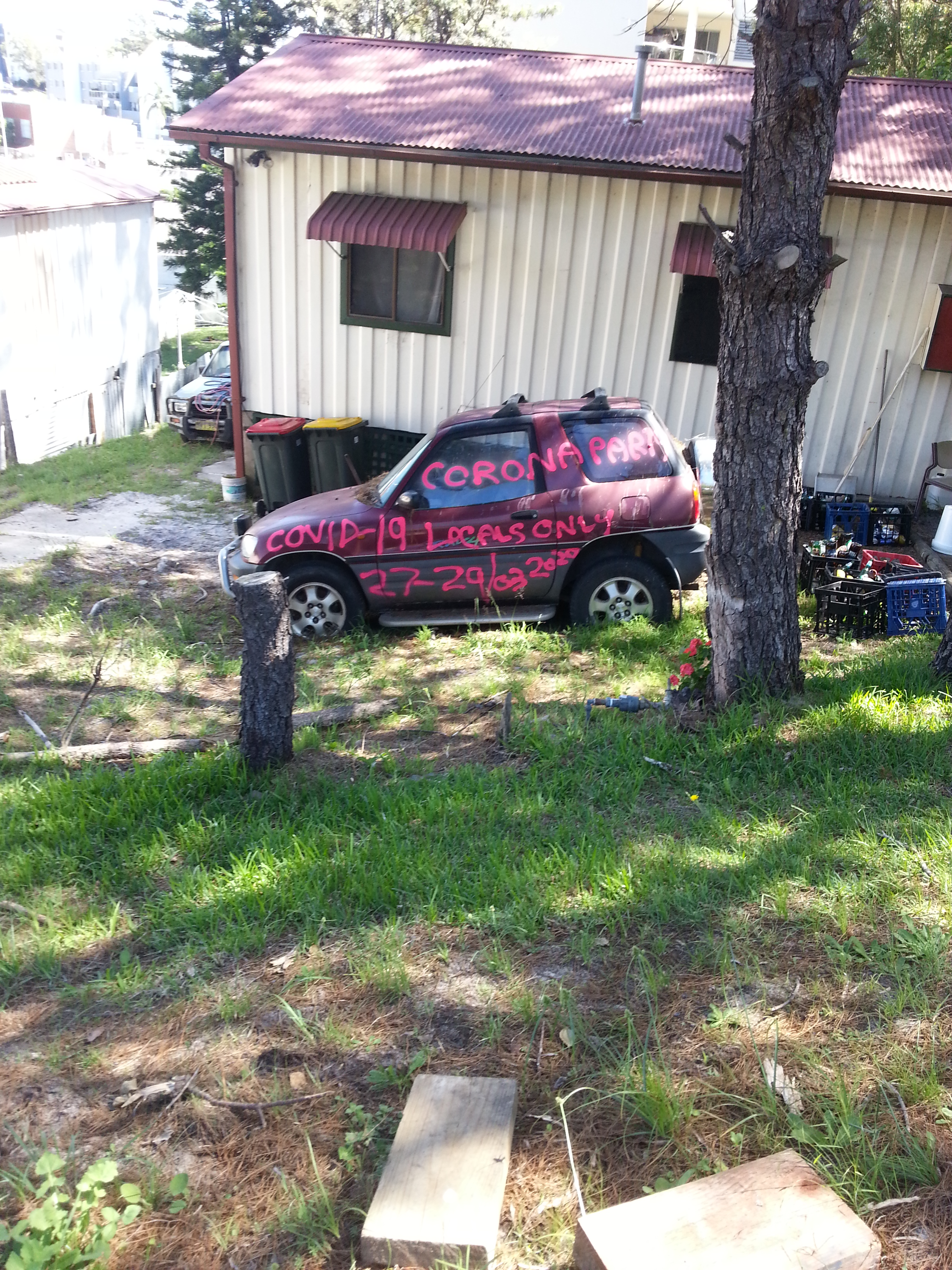 An open invitation to a Coronavirus party spray painted onto the side of a car. (The uploader stated no location information; his first uploaded photo was from Newcastle, New South Wales, Australia.)